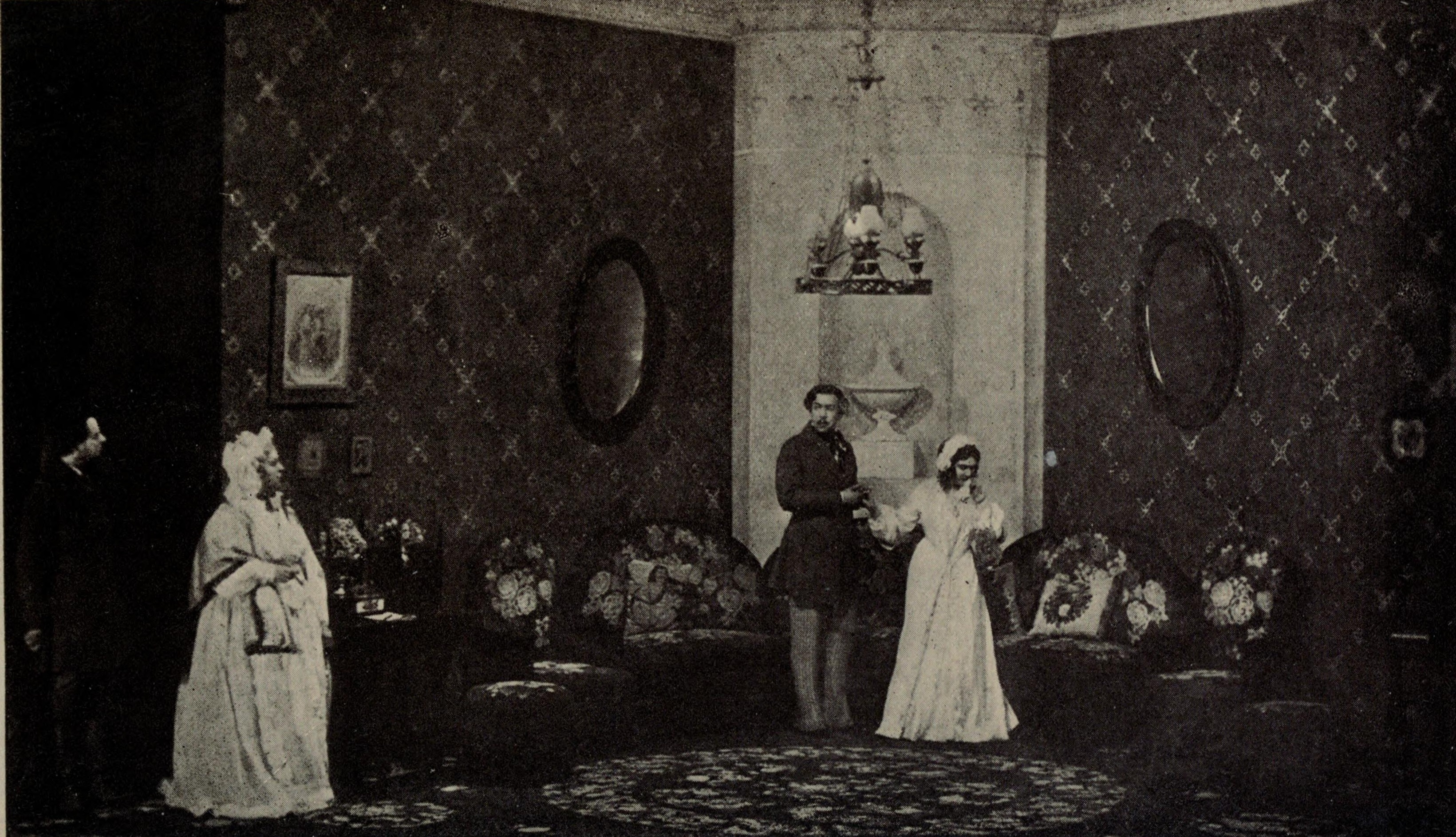 A scene from Act Three of A Month in the Country by Ivan Turgenev. Islayev (left, played by Nikolai Massalitinov) and his mother, Anna Semenovna (played by Maria Samarova) surprise his wife, Natalya (centre, played by Olga Knipper), and her would-be lover and friend of the family, Rakitin (played by Konstantin Stanislavski).NATALYA: Help me, I'm lost with out you.[Entrance of ISLAYEV and ANNA SEMENOVNA]ISLAYEV: That was always my opinion... What does this mean? What is all this?RAKITIN: Oh... nothing... nothing at all... there's... Moscow Art Theatre production, 1909